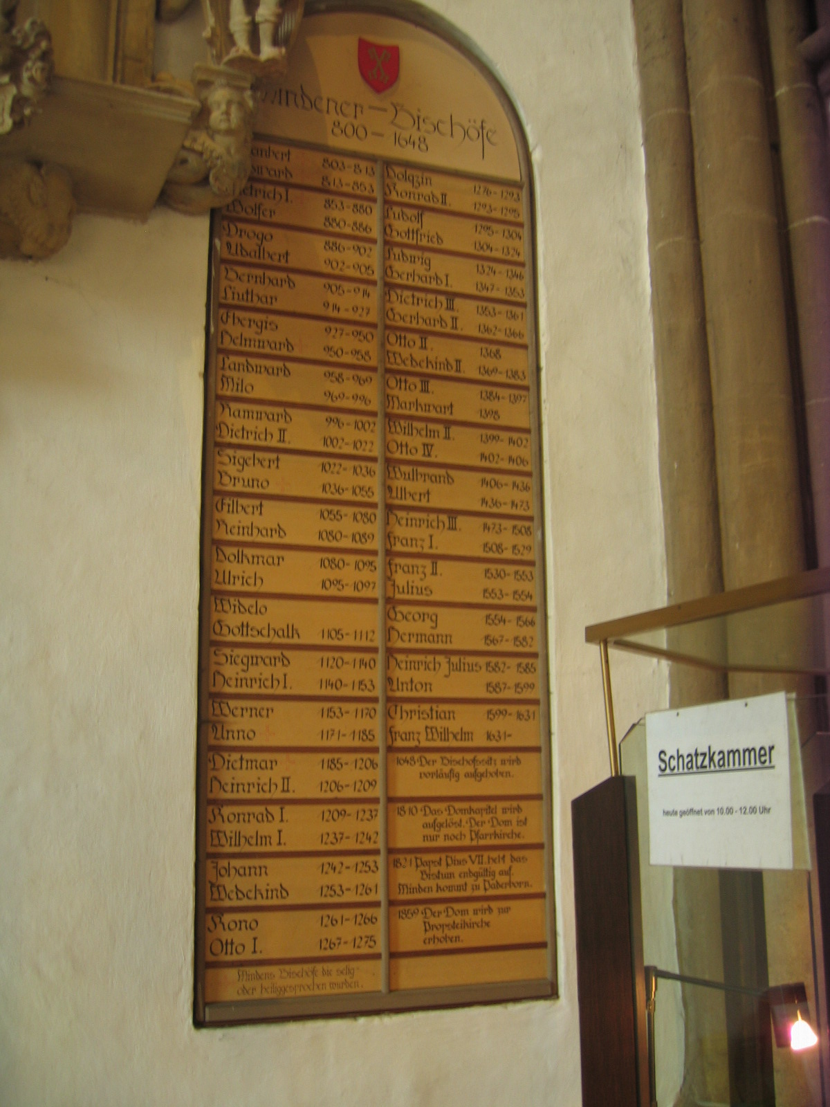 Cathedral in Minden, District of Minden-Lübbecke, North Rhine-Westphalia, Germany.